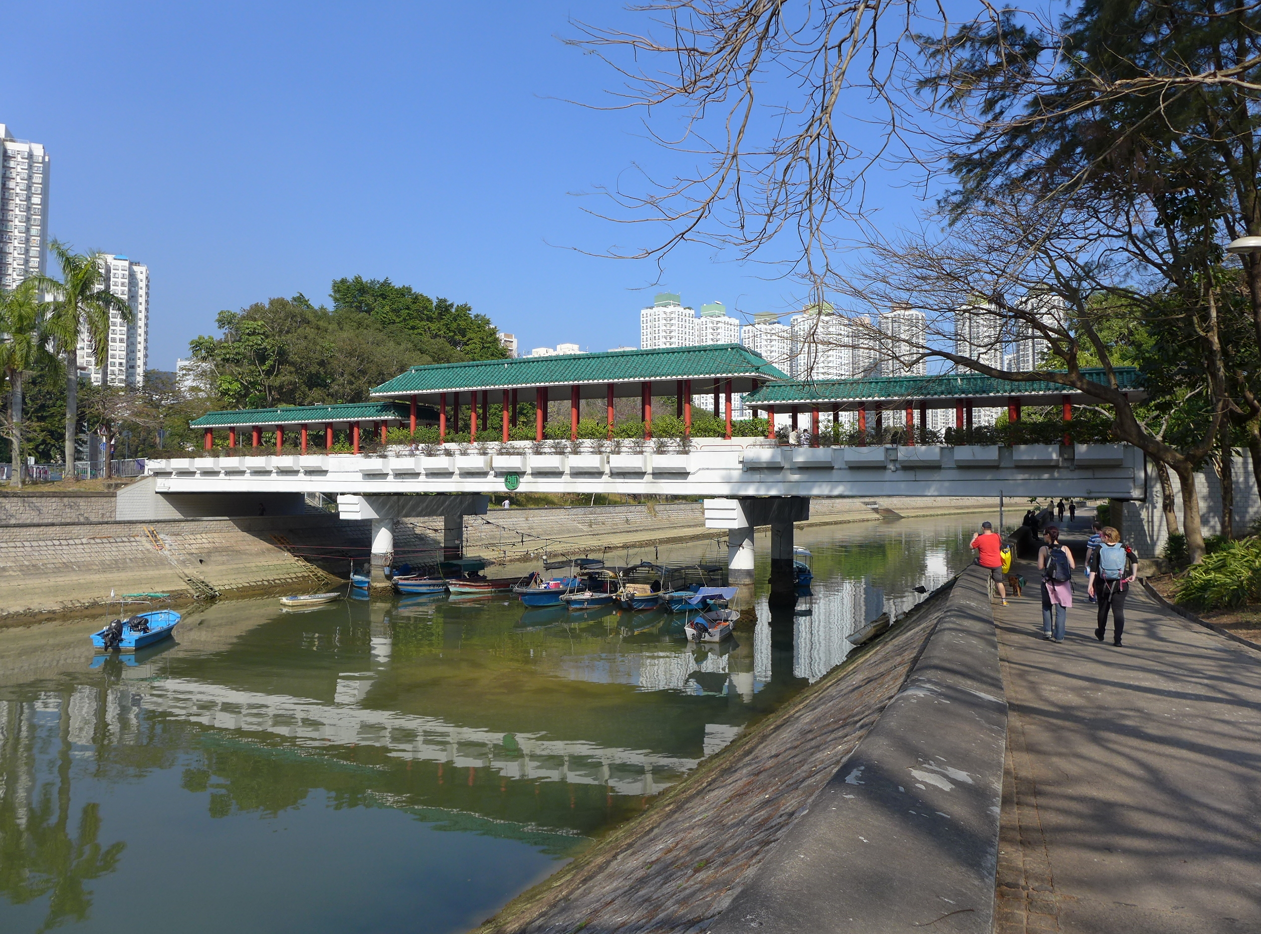 3rd Generation Kwong Fok Bridge 第三代廣福橋